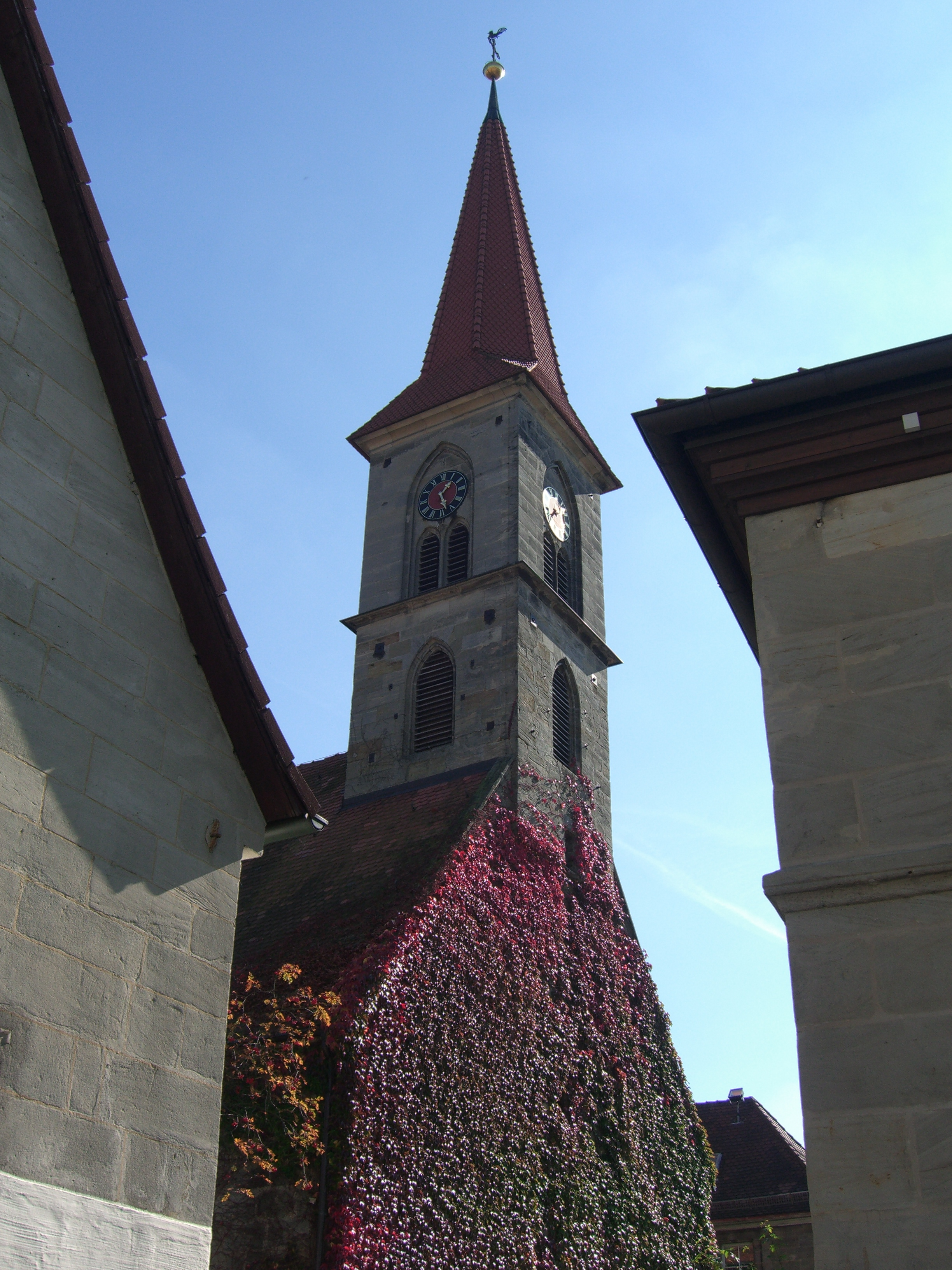 The tower of the Lutheran church in Eschenau, municipality of Eckental, in Bavaria, Germany, viewed between two buildings.